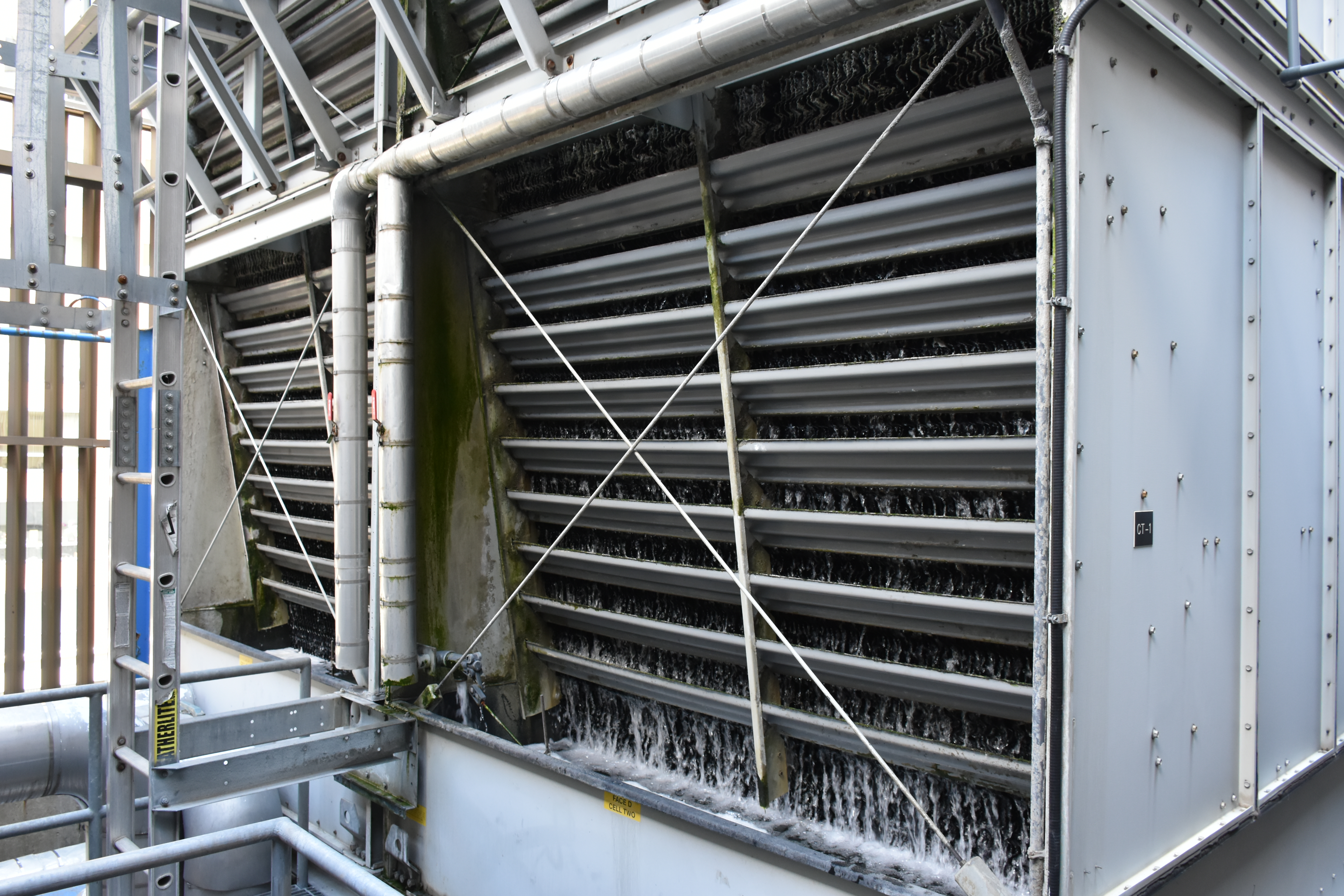 Cell of an open loop cooling tower with fill material, and circulating water visible